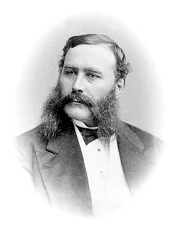 Abram William Lauder, Member for South Grey, Ontario Legislative Assembly